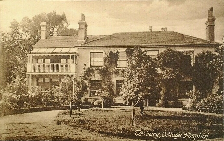 Old postcard showing Tenbury Cottage Hospital